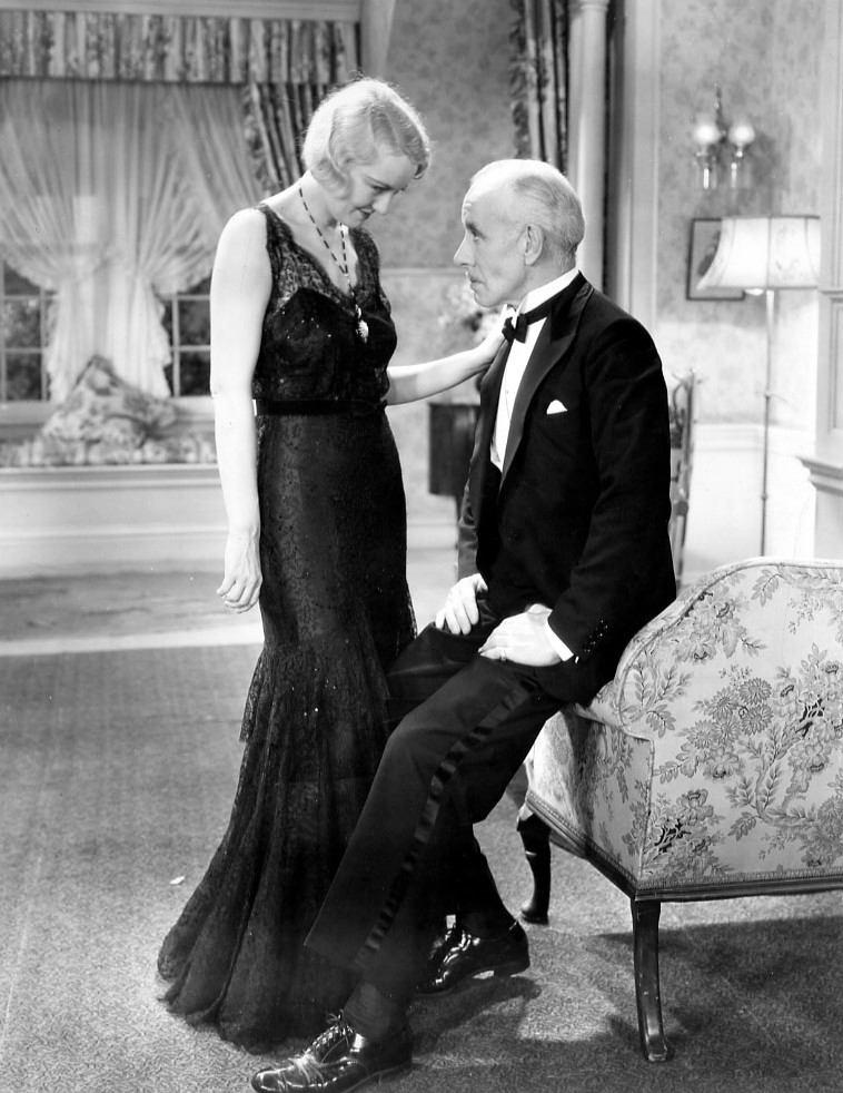 Photo from the 1931 film The Bargain.